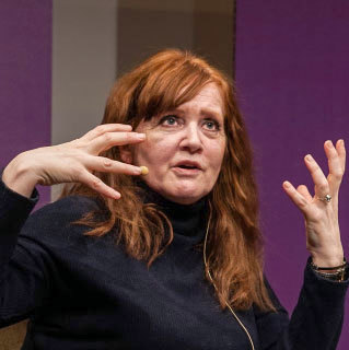 Auður Ava Ólafsdóttir ar LitteraturXchange Festival in Aarhus 2019